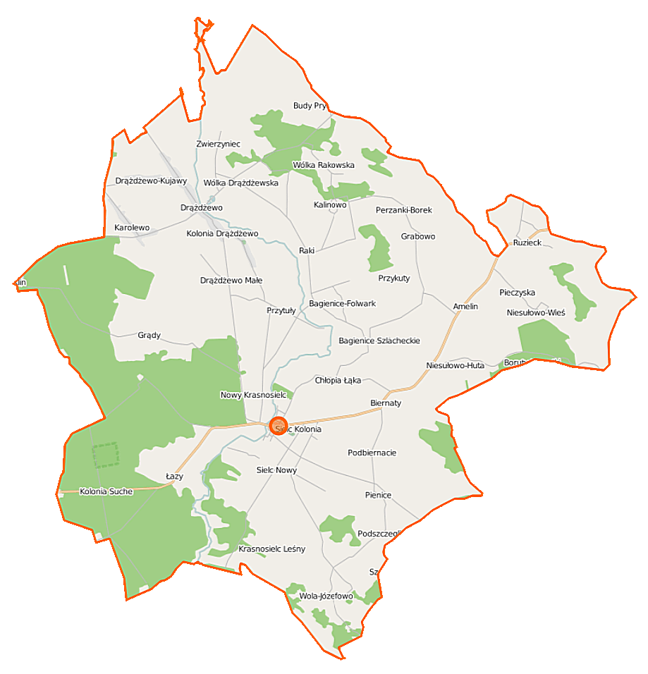 Map of Gmina Krasnosielc, Poland This map of Krasnosielc (gmina) was created from OpenStreetMap project data, collected by the community. This map may be incomplete, and may contain errors. Don't rely solely on it for navigation. Border coordinates53.143721.0378←↕→21.316652.9693